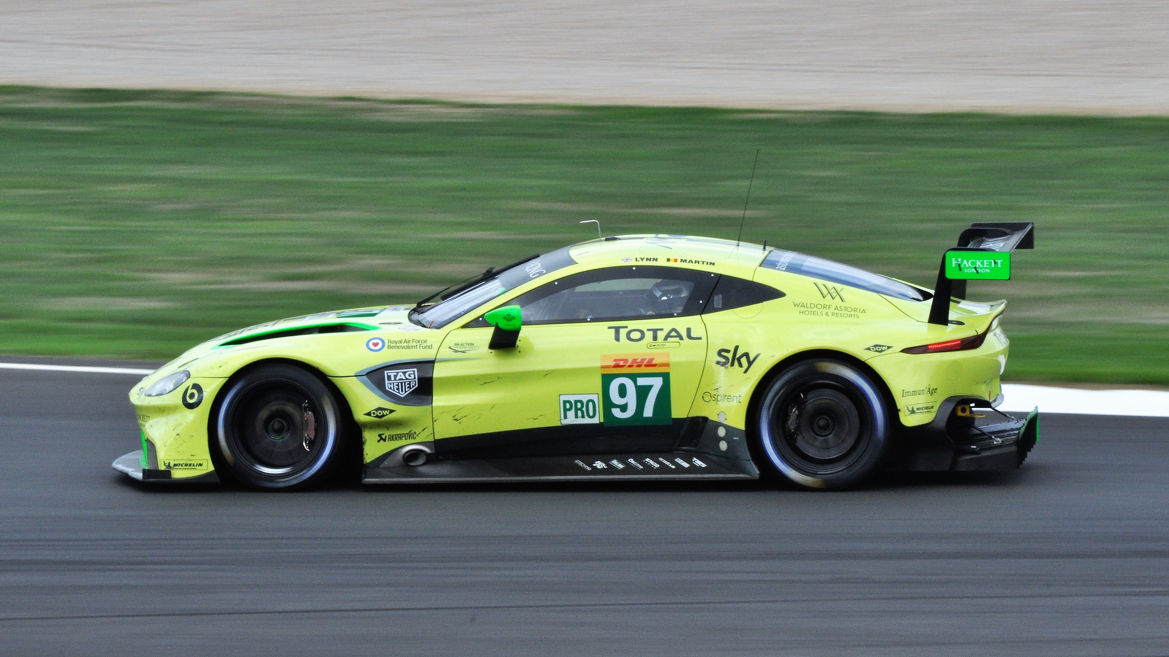 Belgian driver Maxime Martin in the number 97 Aston Martin entry, enters Aintree corner during the 2018 6 Hours of Silverstone race. Martin and his co-driver, British driver Alex Lynn, finished just off the podium in 4th place in the LMGTE Pro class.